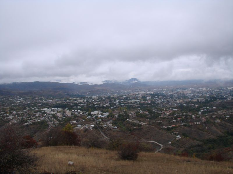 Stepanakert as seen from Shushi, Nagorno-Karabakh